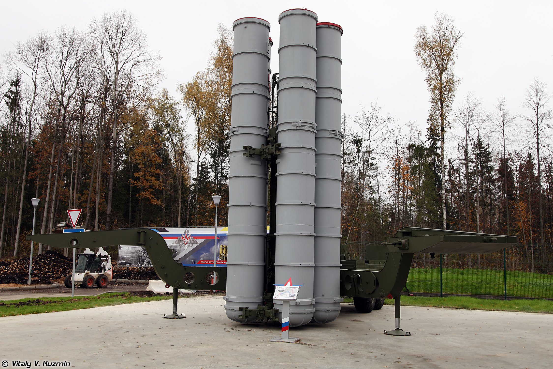 5P85-1 TEL S-300PT system - Park Patriot